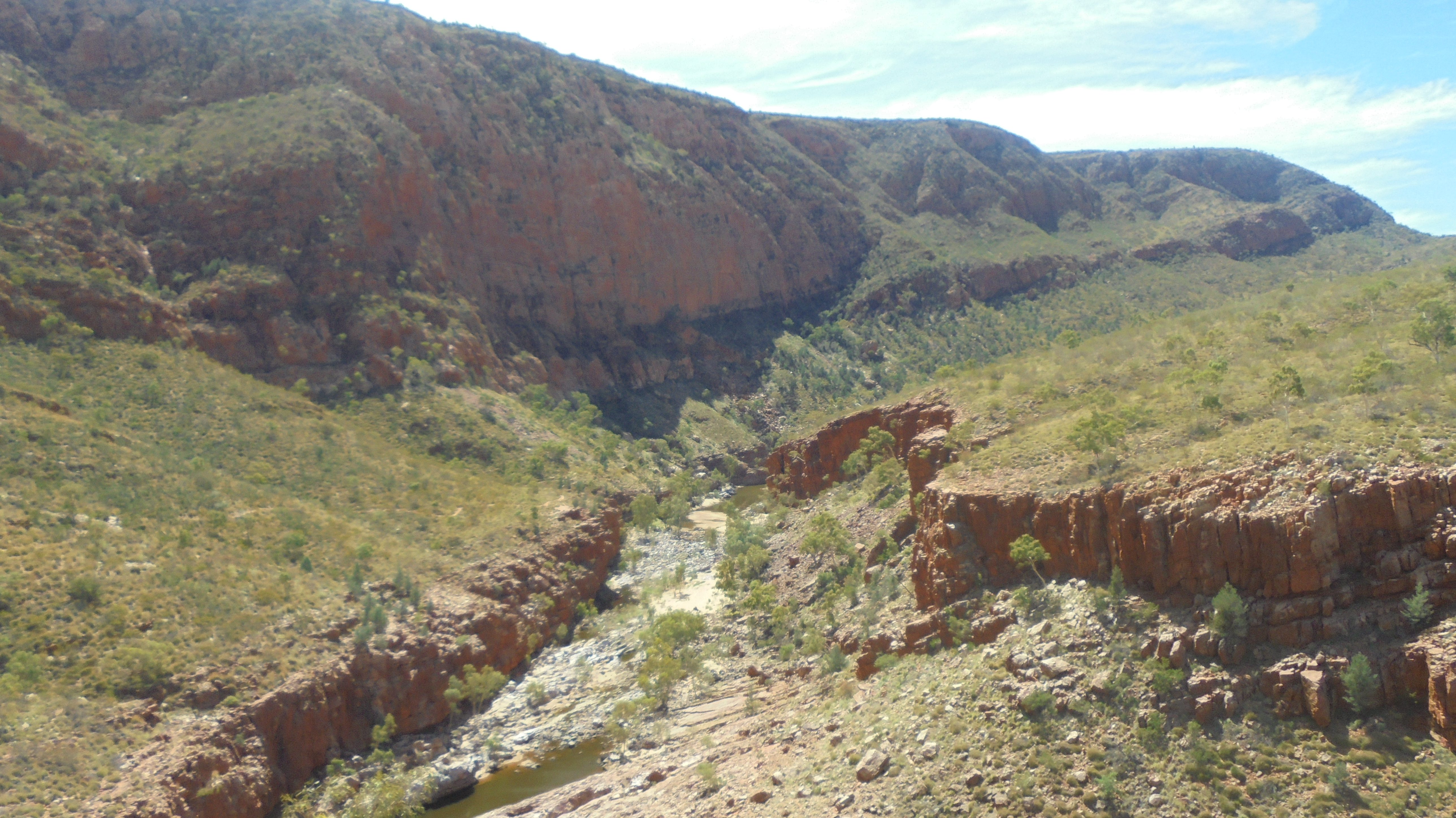 One of the may small canyons of Larapinta